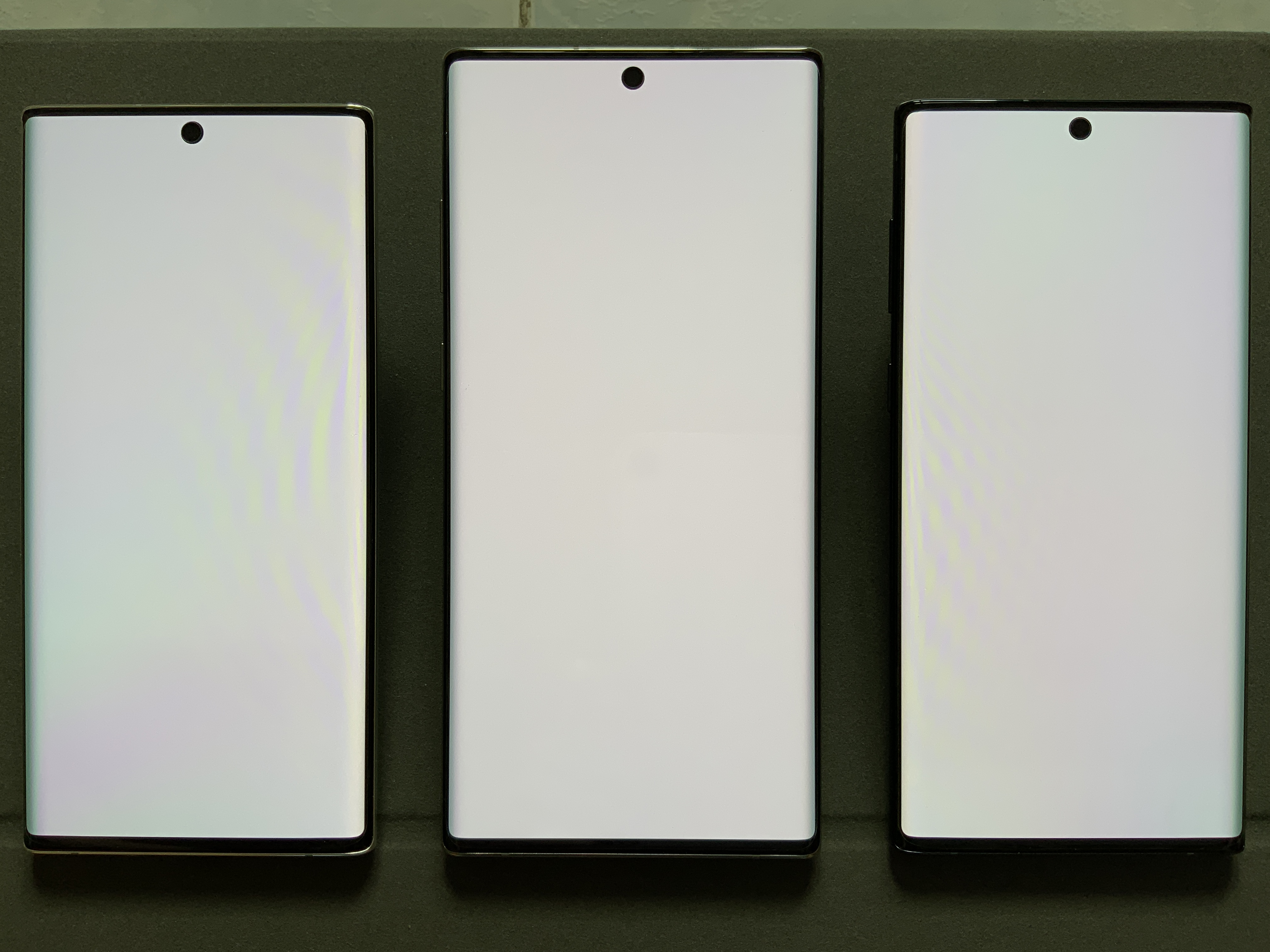 SAMSUNG Galaxy Note10 SAMSUNG Galaxy Note10 5G SAMSUNG Galaxy Note10+ SAMSUNG Galaxy Note10+ 5G